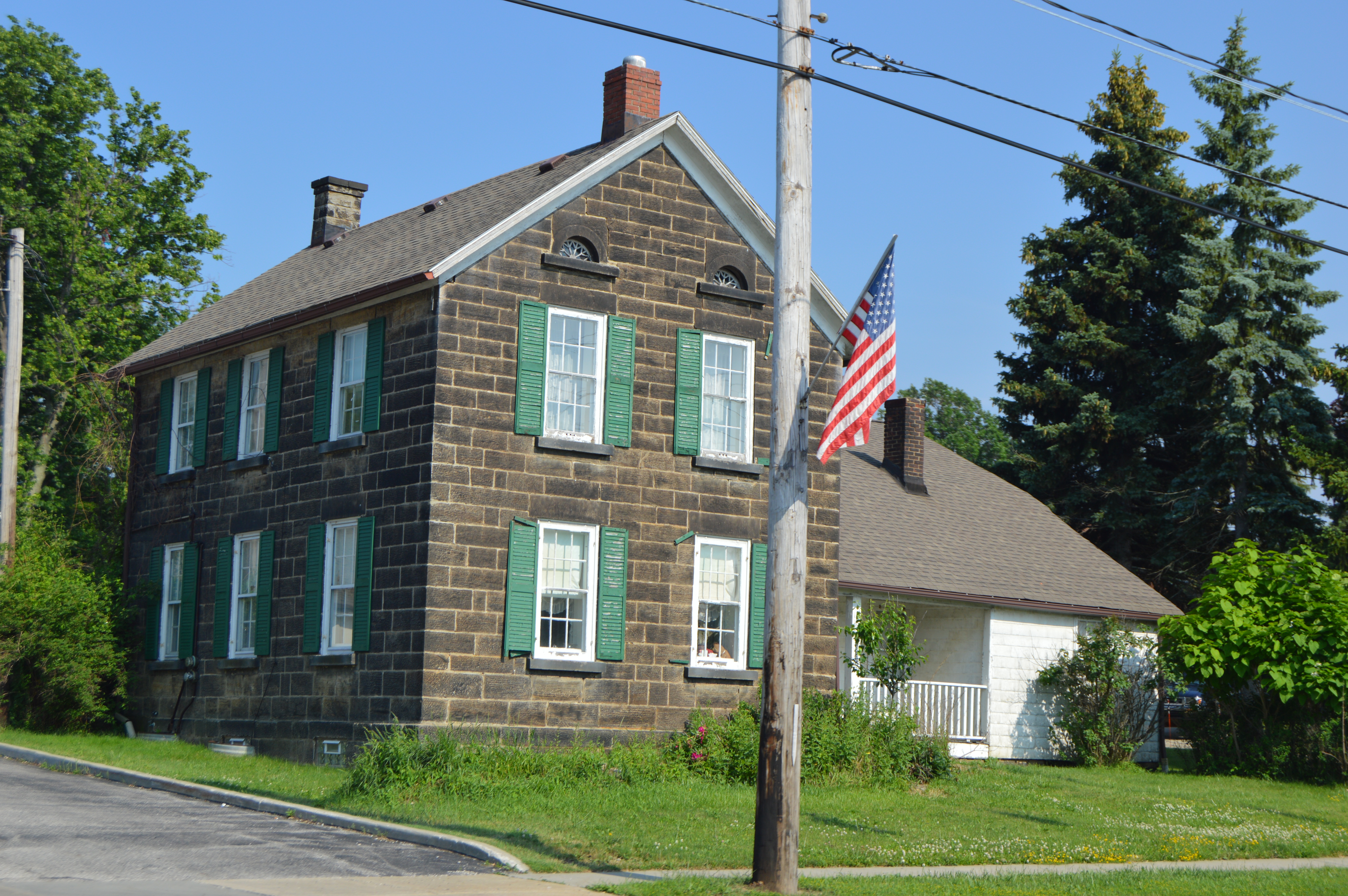 Western side and front of the John Froelich House, located at 7095 Broadview Road (State Route 176) in Seven Hills, Ohio, United States. Built in 1843, it is listed on the National Register of Historic Places.